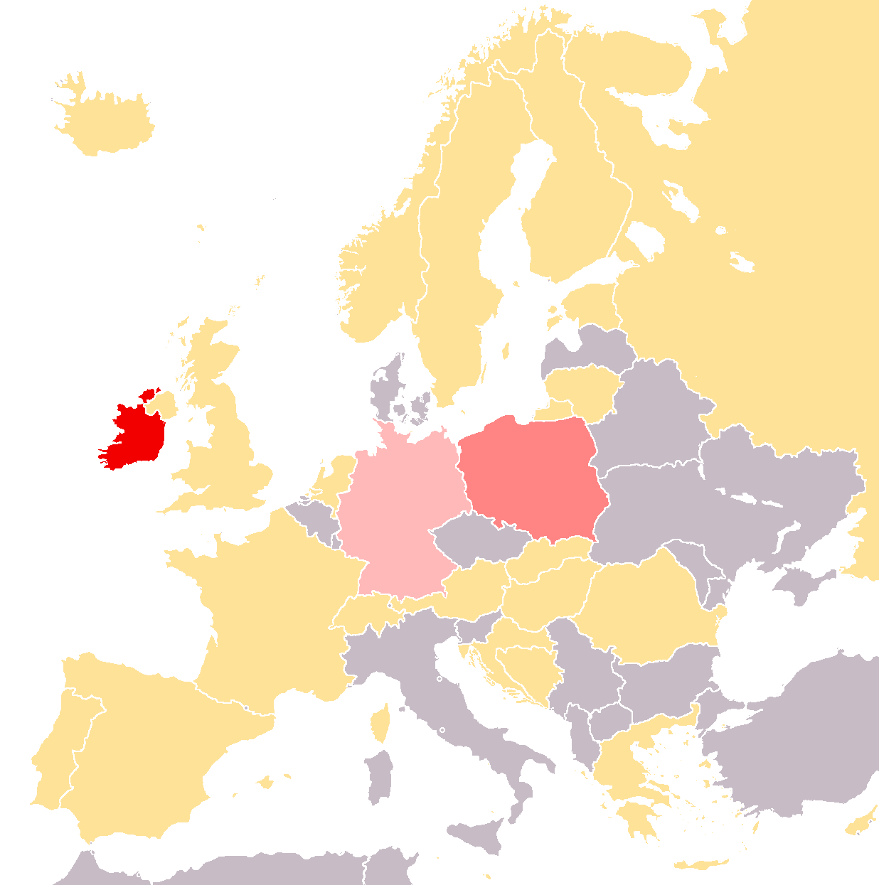 Map of Eurovision 1994